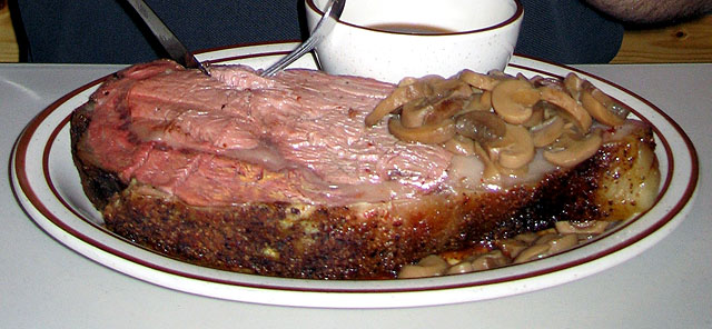 Photo made by Michael C. Berch (User:MCB) on 2006-05-06. Location: Round the Bend Steakhouse, South Bend, Nebraska, USA.